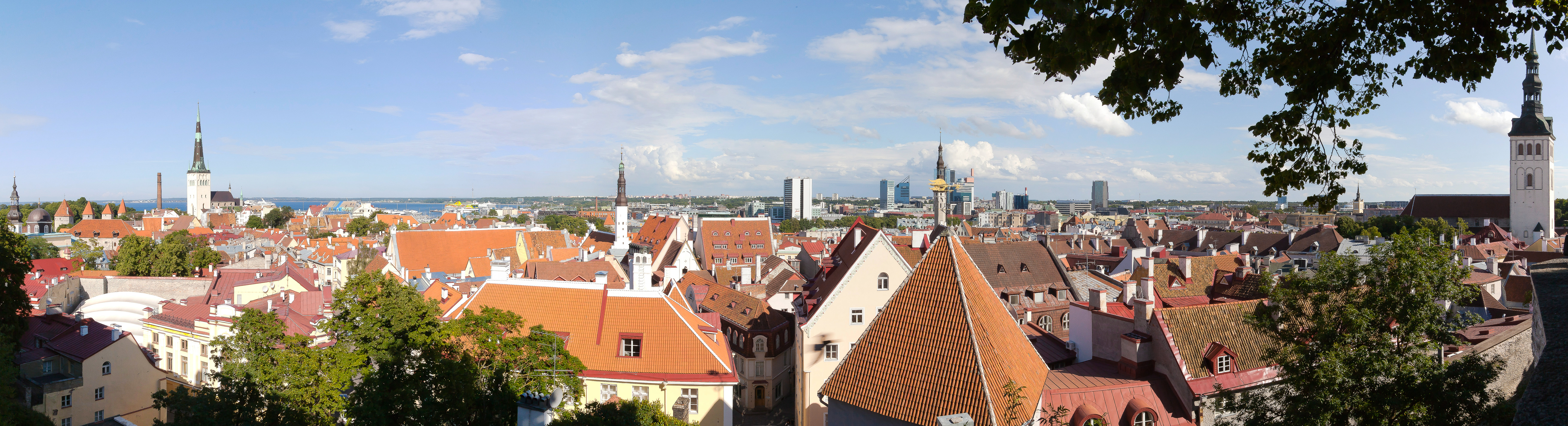 Panoramic view of Tallinn from Toompea, Estonia